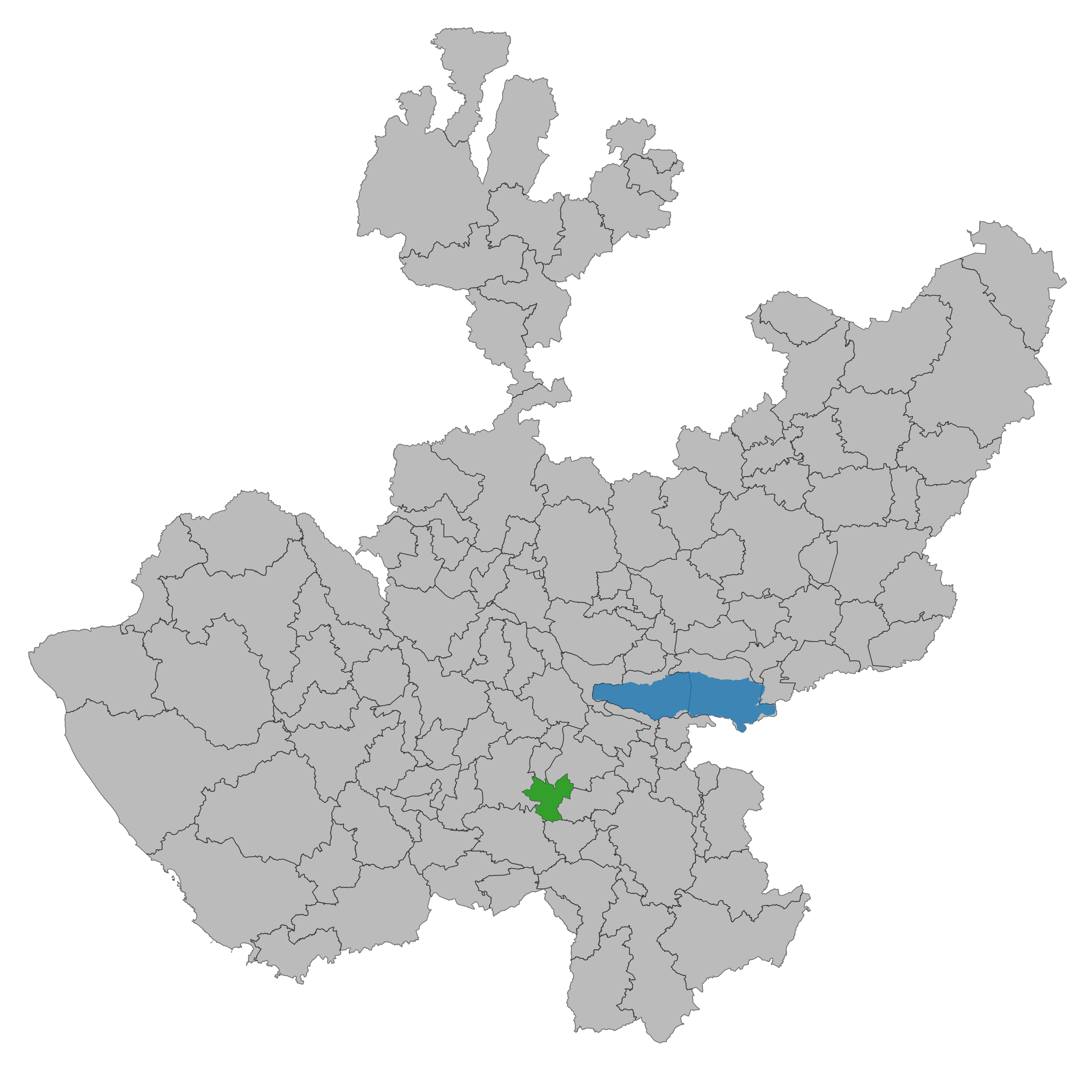 Municipality of Jalisco. Prepared with the software QGIS version 2.8.2 Wien & with information of SCINCE 2010 version 05/2013